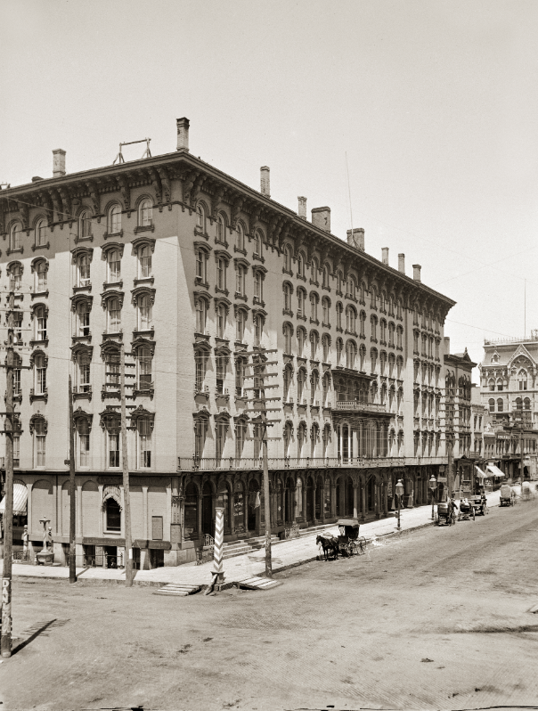 Newhall House Hotel, Milwaukee - ca. 1880